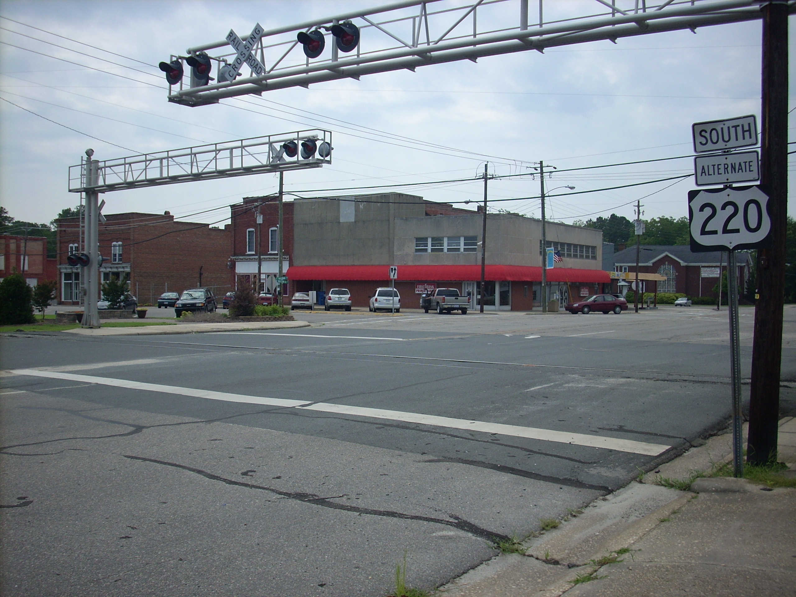 The central part of Candor, North Carolina